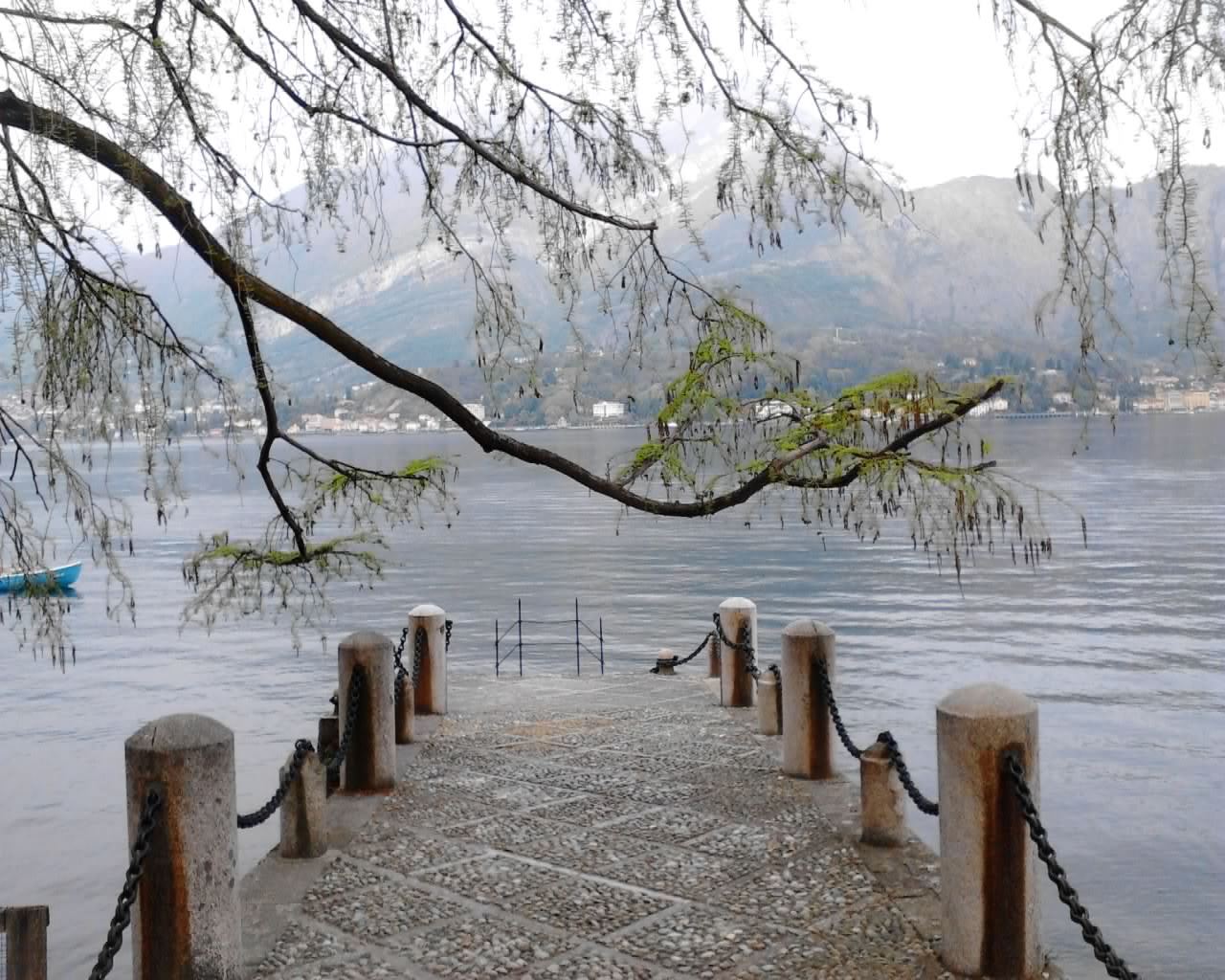 Como Lake in Villa Melzi BELLAGIO ITALY